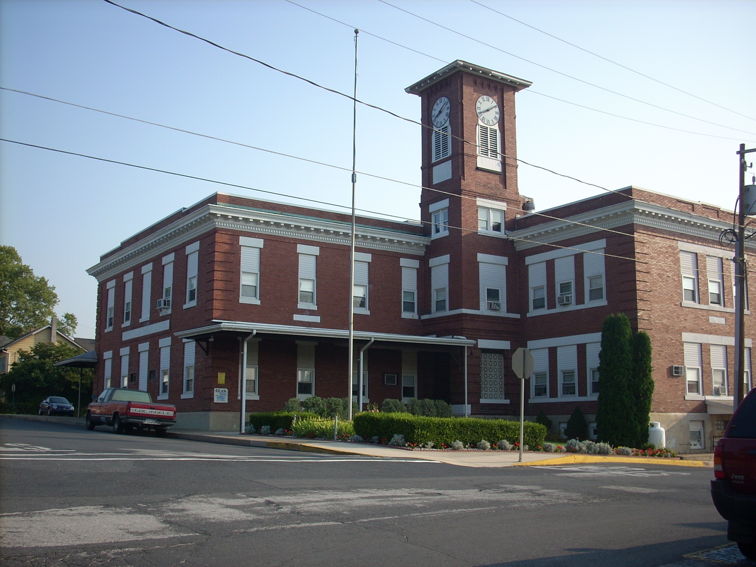 Former Public School of Marysville. Now an apartment building